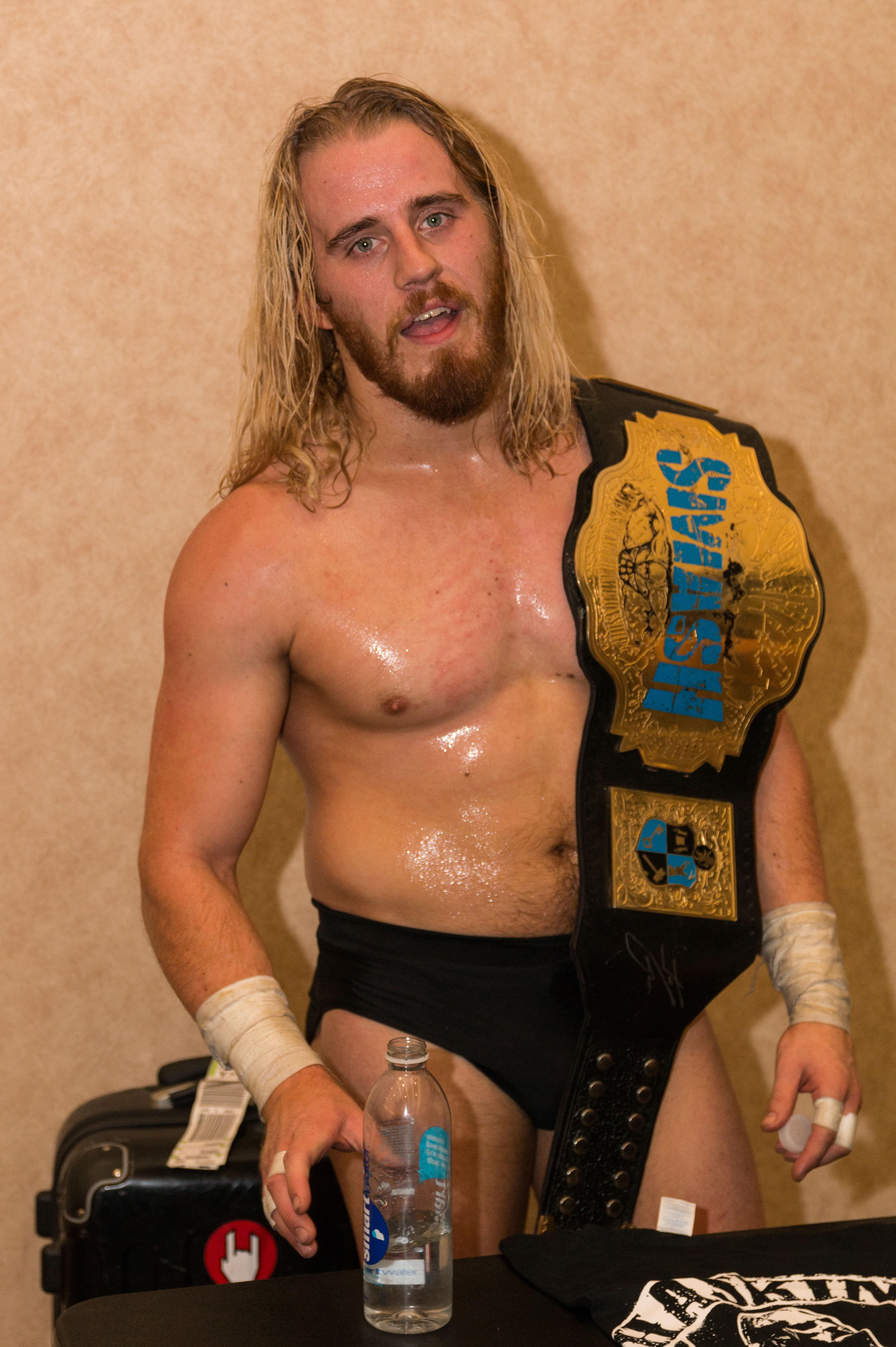 Mark Haskins posing with the Smash Wrestling championship belt at a show in Pickering, ON